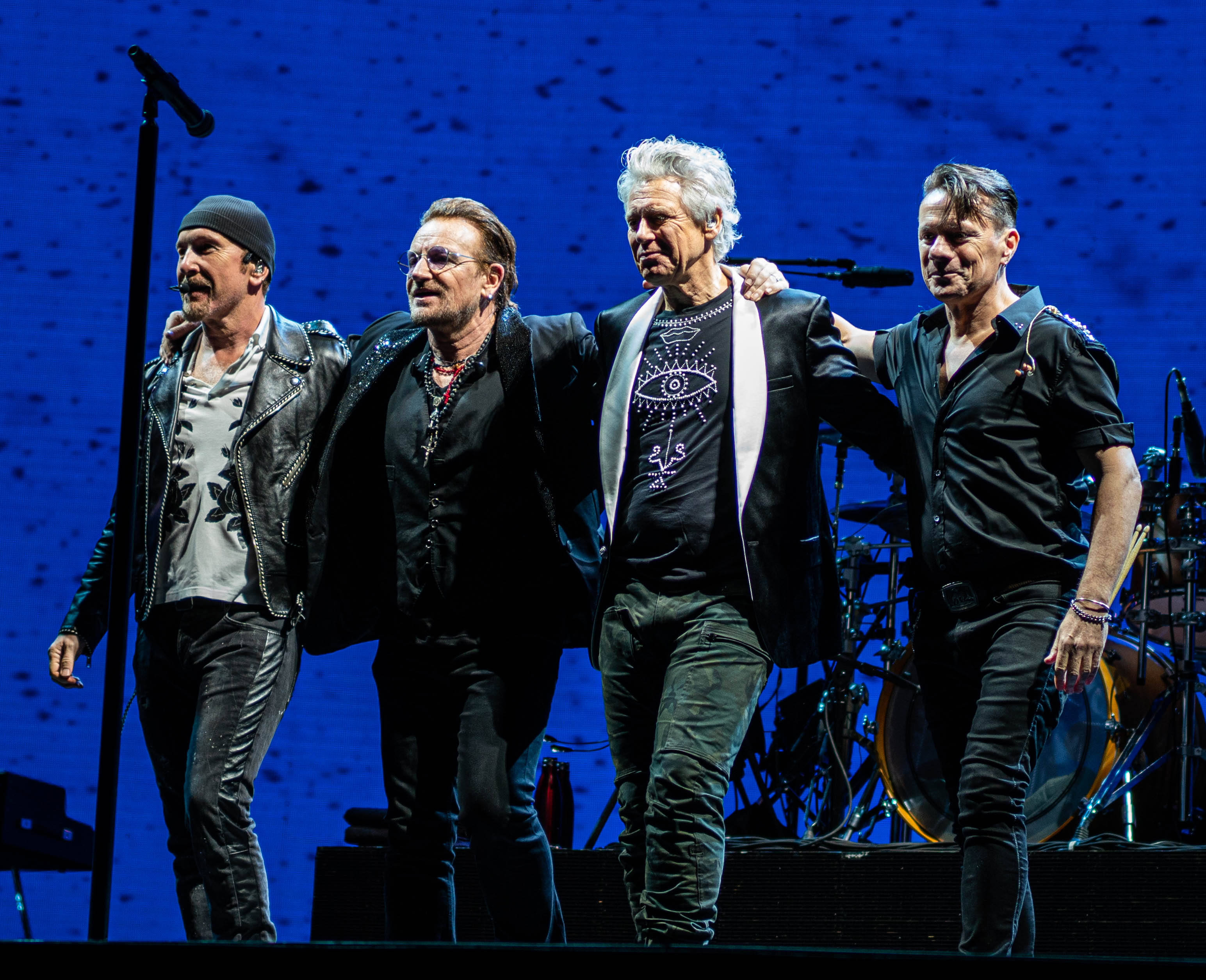 Irish rock band U2 performing at Sydney Cricket Grounds in Sydney, Australia on November 23, 2019, during the band's The Joshua Tree Tour 2019